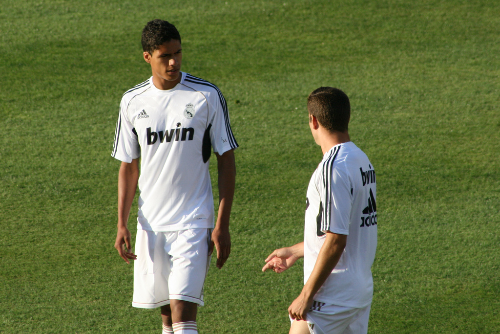 Raphaël Varane on Real Madrid training, in Los Angeles, California.